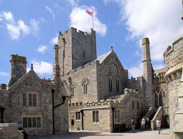 Courtyard and church inside the castle on St Michael's Mount, Cornwall